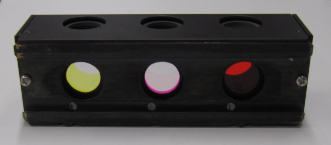 Slider for a fluoescene microscope with filters for three color channels.